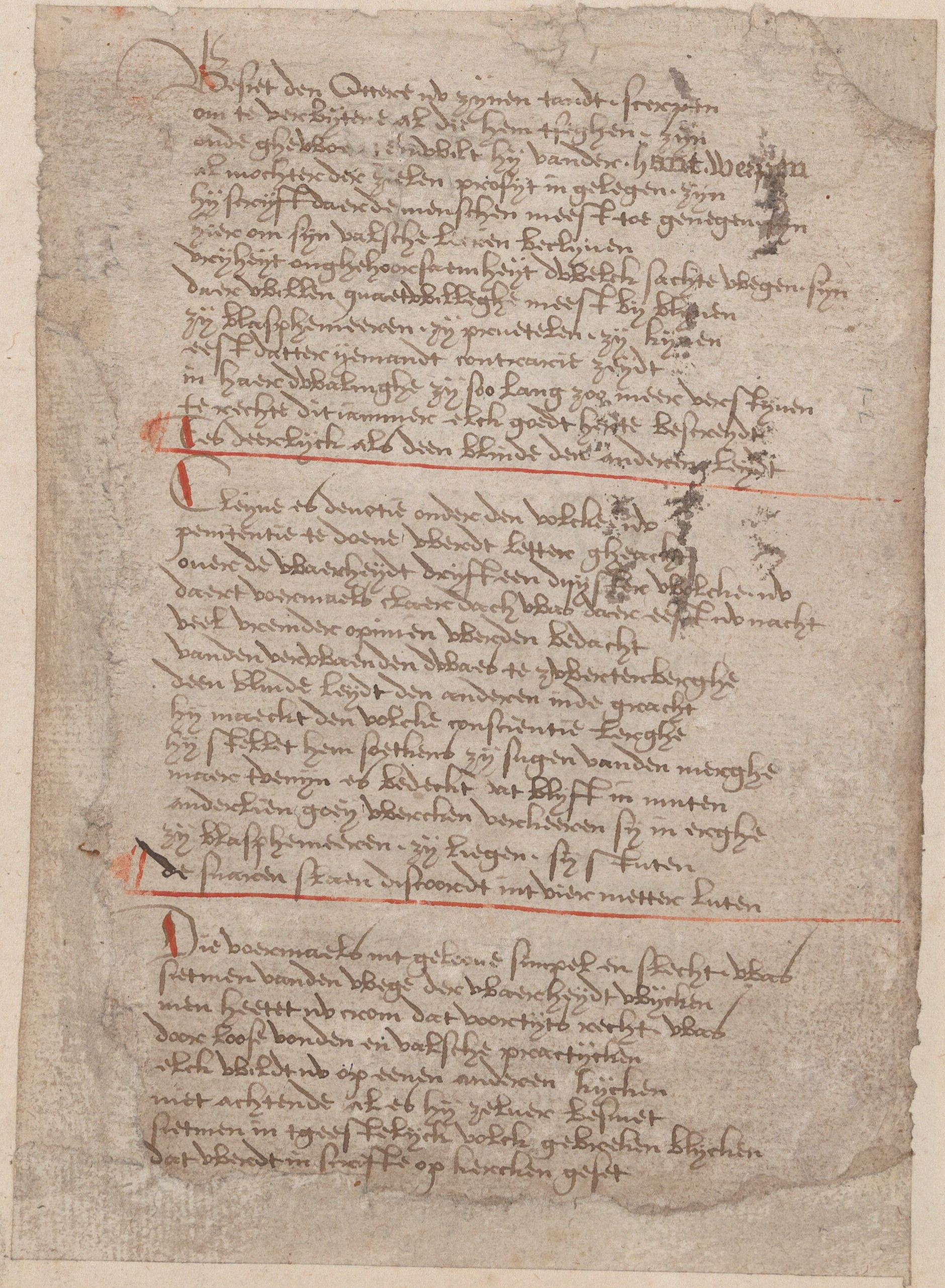 Poems by Anna Bijns from manuscript kept at the Universiteitsbibliotheek Gent